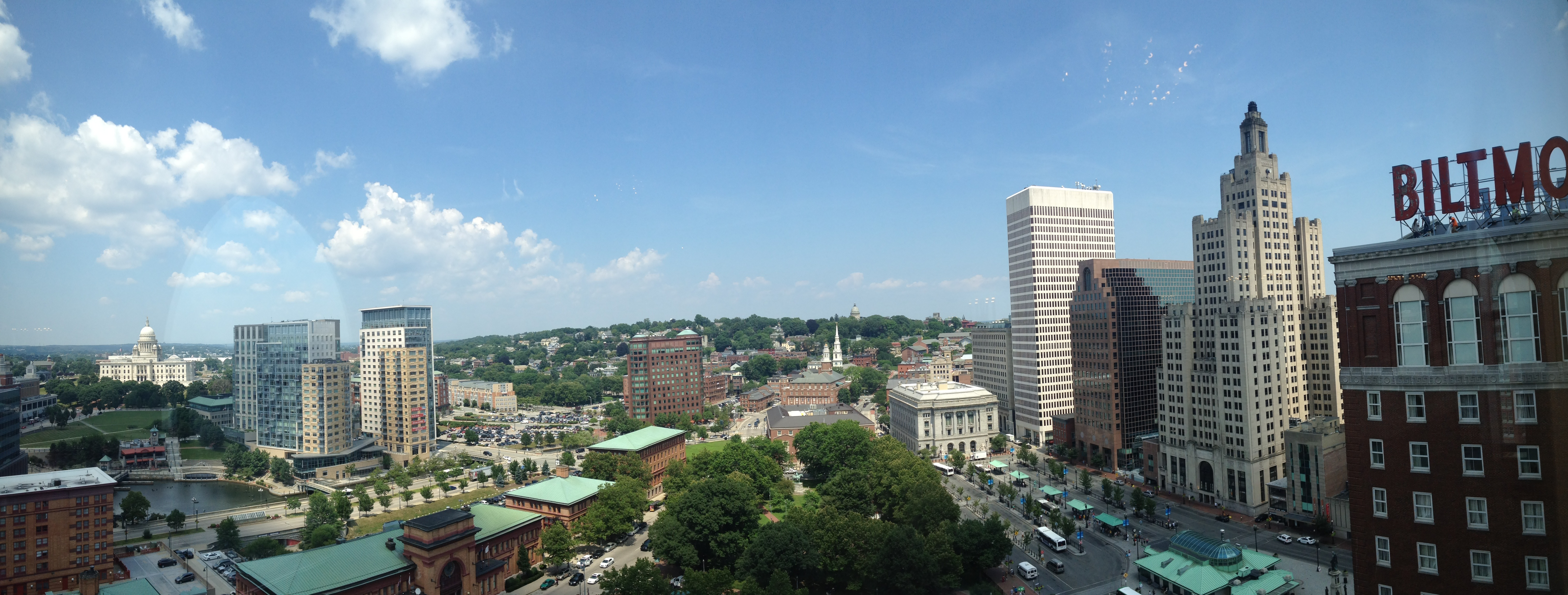 This is a panorama taken from the 18th floor of the Biltmore Hotel in Providence, Rhode Island.